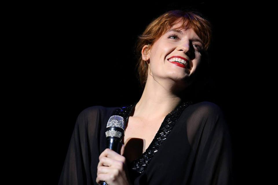 The lead singer Florence Welch from Florence and the Machine performing at Coke Live Music Festival.